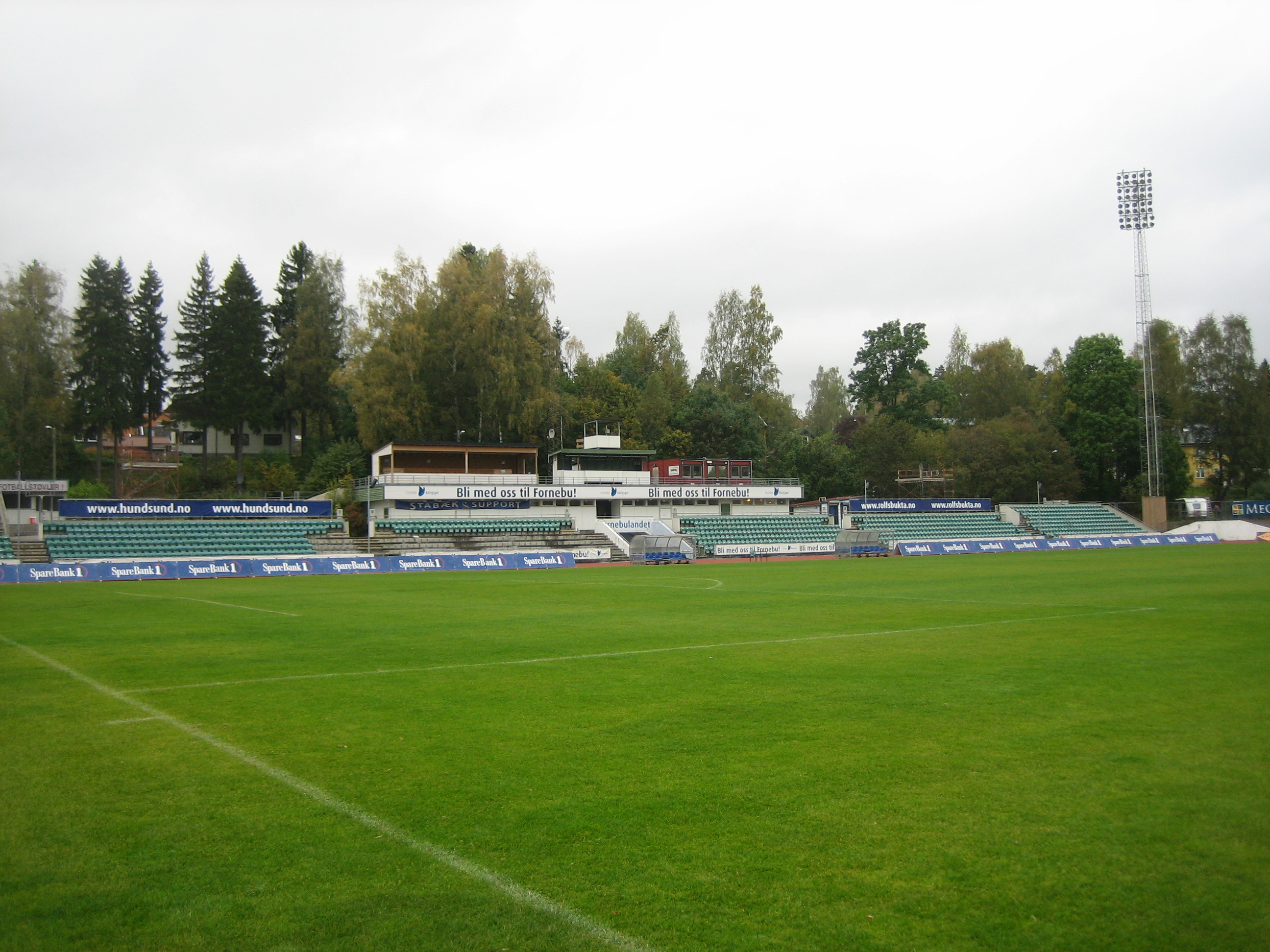 Nadderud stadion